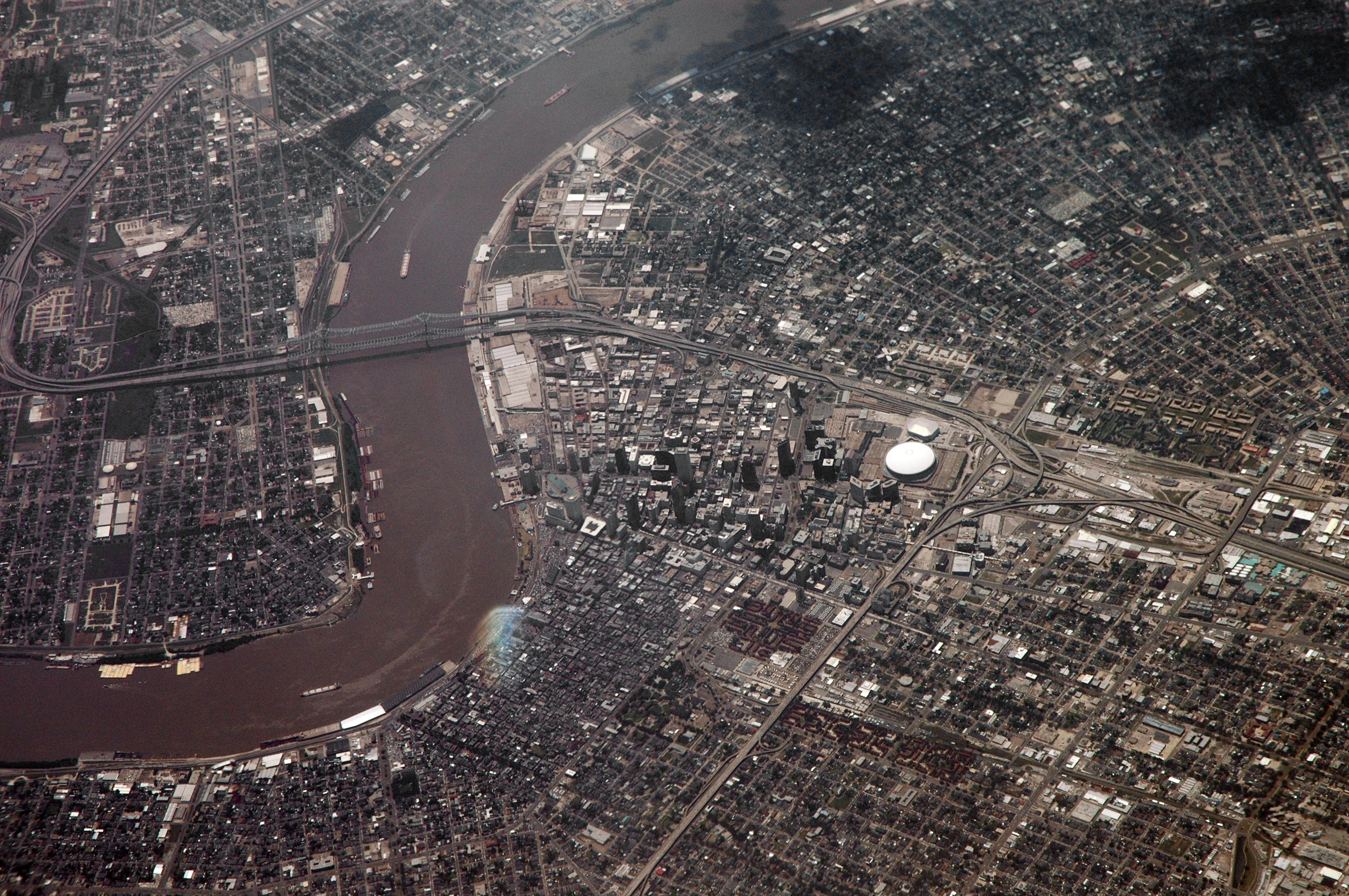 Photo of New Orleans from on board a Boeing 757. Clearly seen are the Louisiana Superdome (white circle just right of center) and the "Crescent City Connection" bridges over the Mississippi River. The French Quarter is to lower left of center, with a rainbow reflection over Jackson Square.